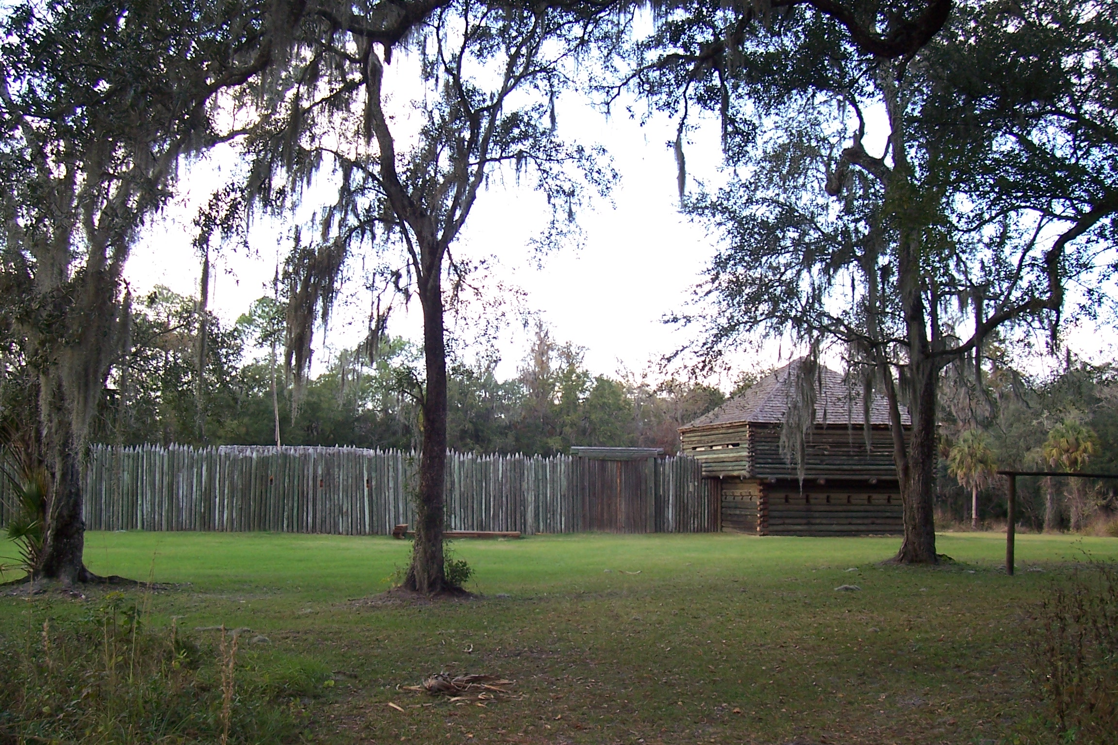 Fort Foster in Hillsborough River State Park, northeast Hillsborough County, Florida